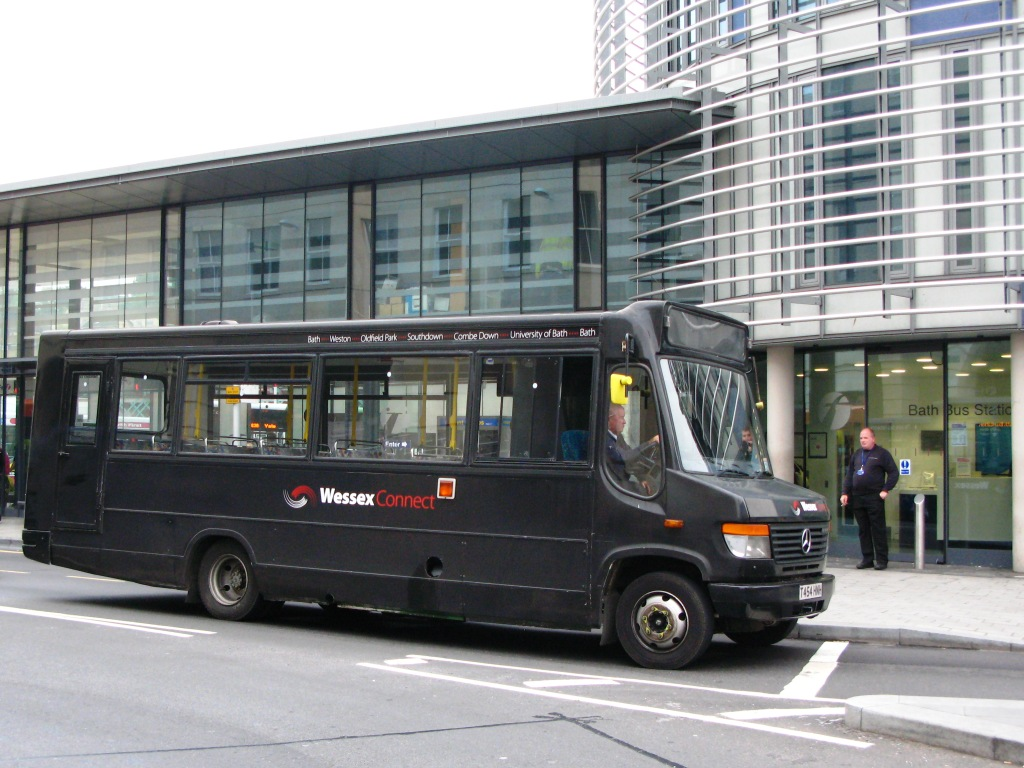 T454HNH, an Alexander-bodied Mercedes-Benz vario, leaves Bath Bus Station on a local circular route operated by Wessex Connect.